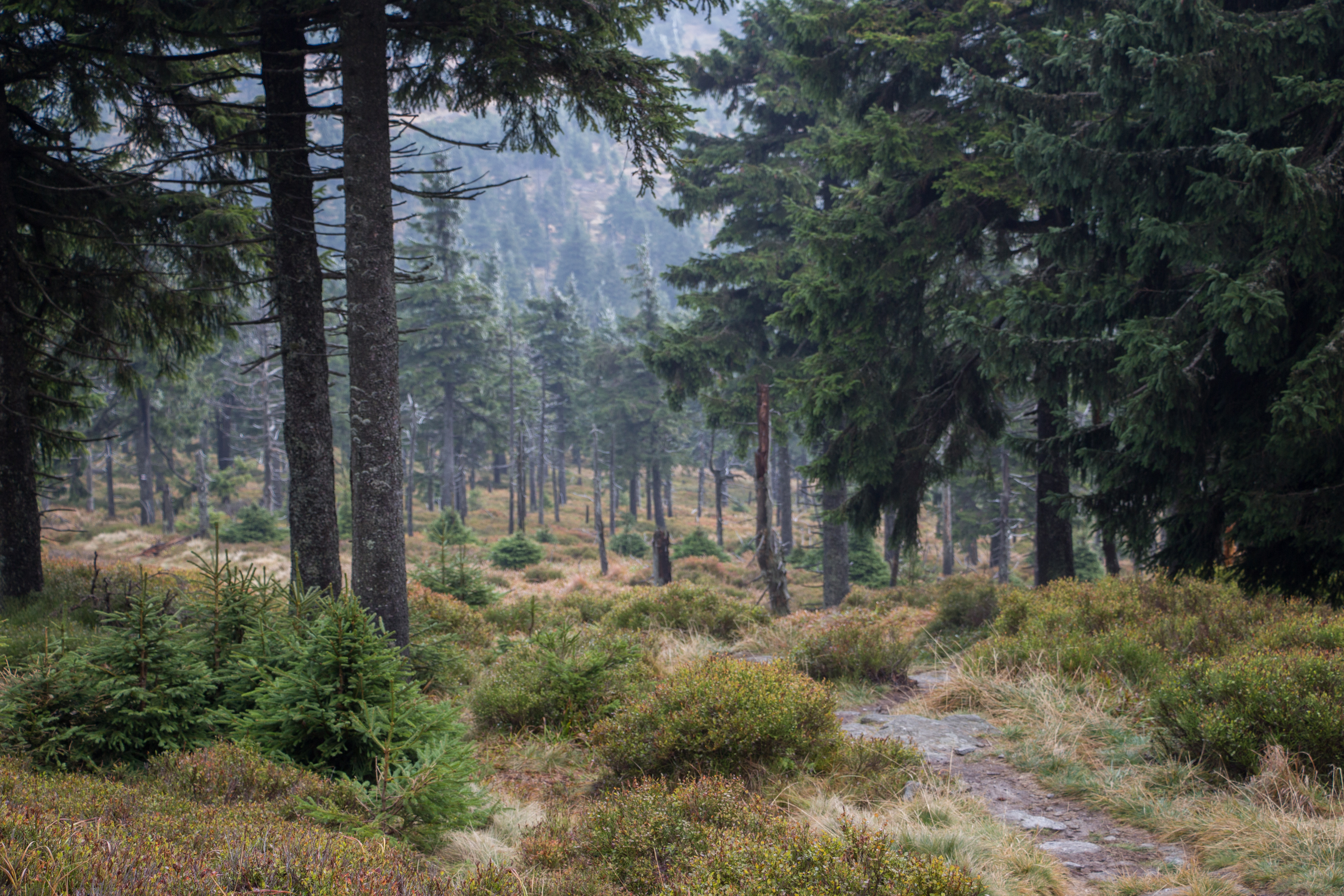 Šerák-Keprník. Jeseníky, Czech Republic